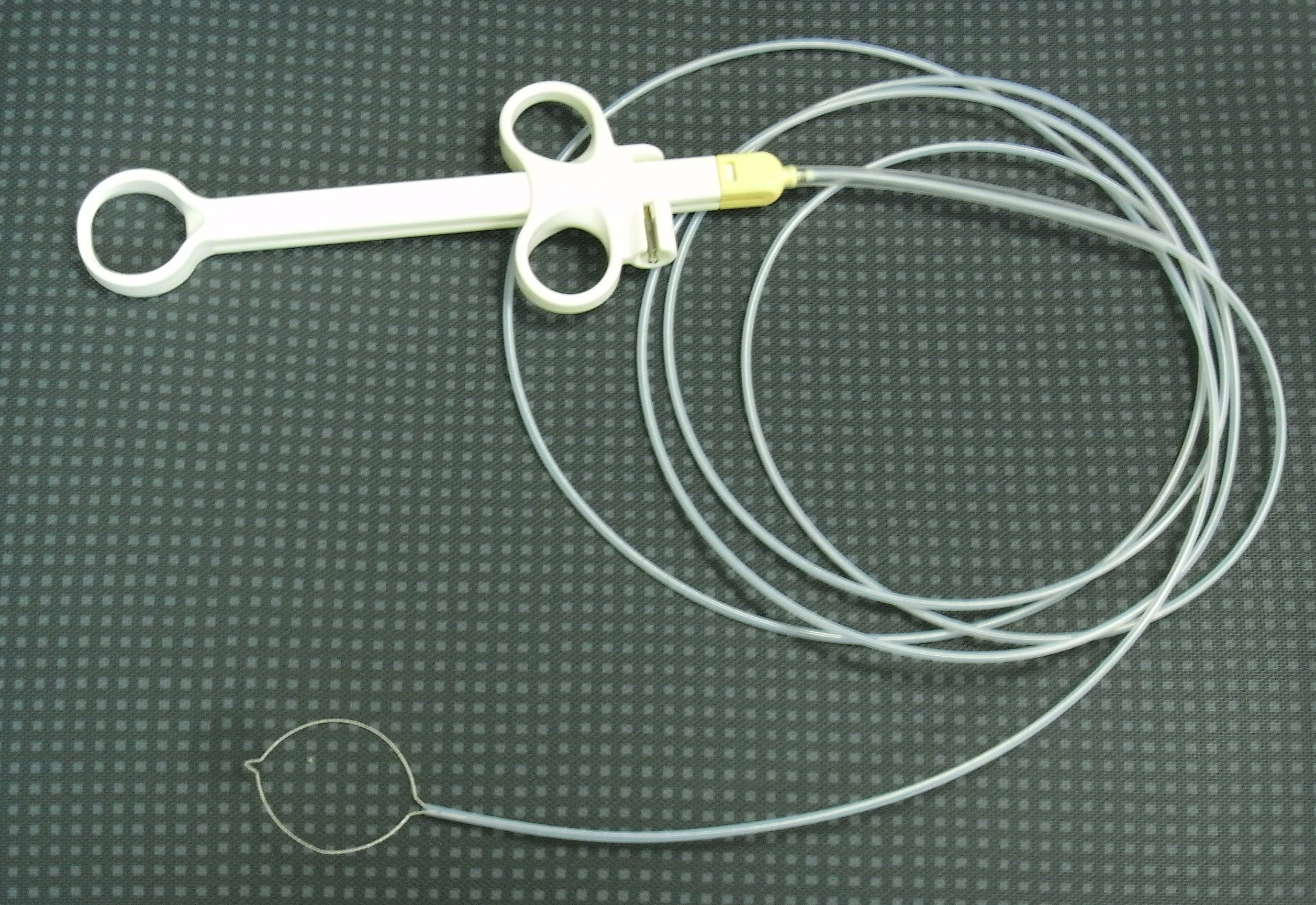 Endoscopy snare used for upper GI and colonic polypectomy